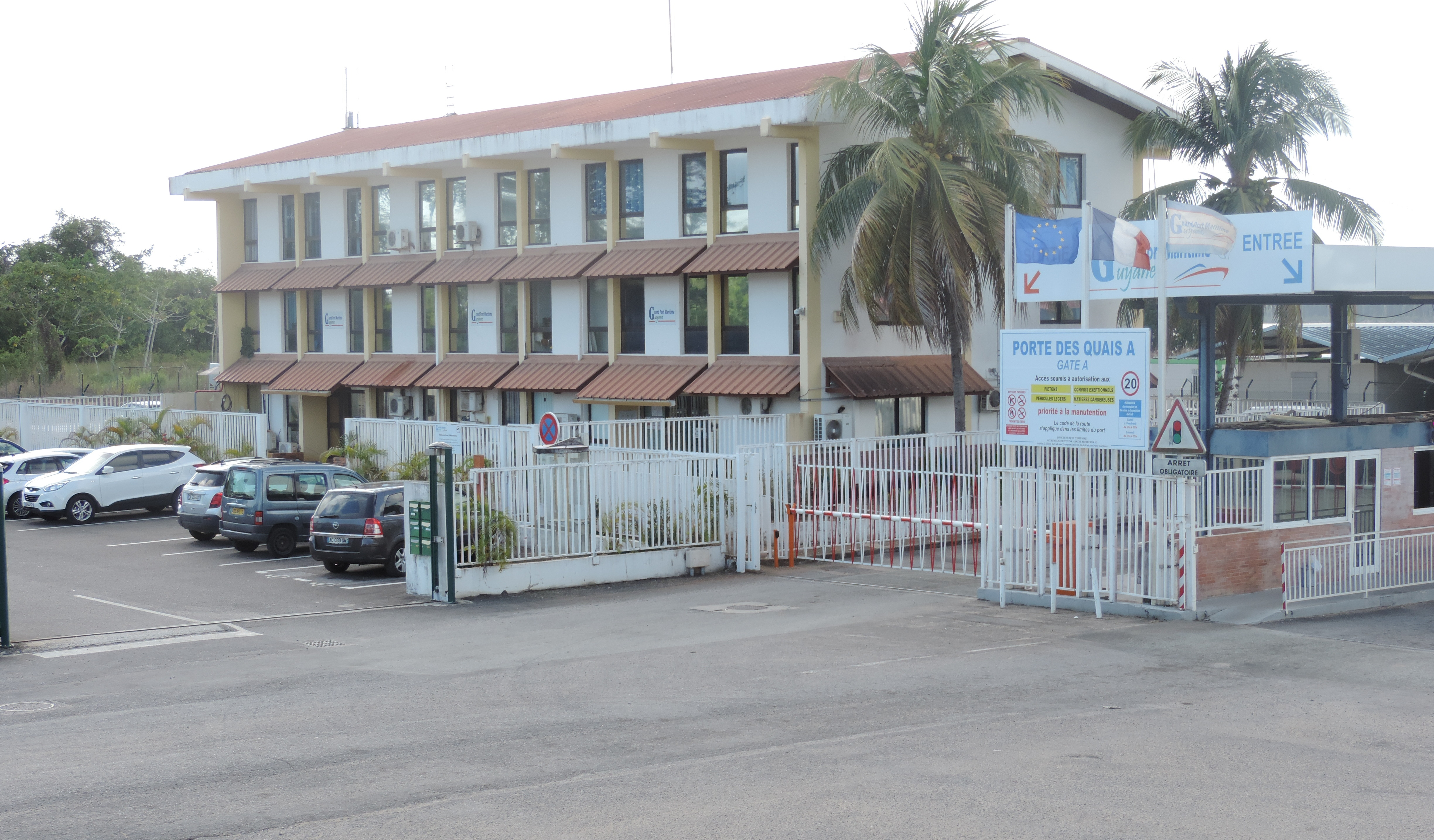 Dégrad des cannes DSCN1221